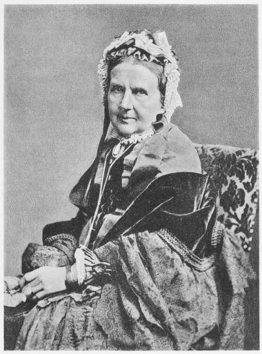 Scan of a Photography of Gabriele von Bülow, née von Humboldt, taken around 1880